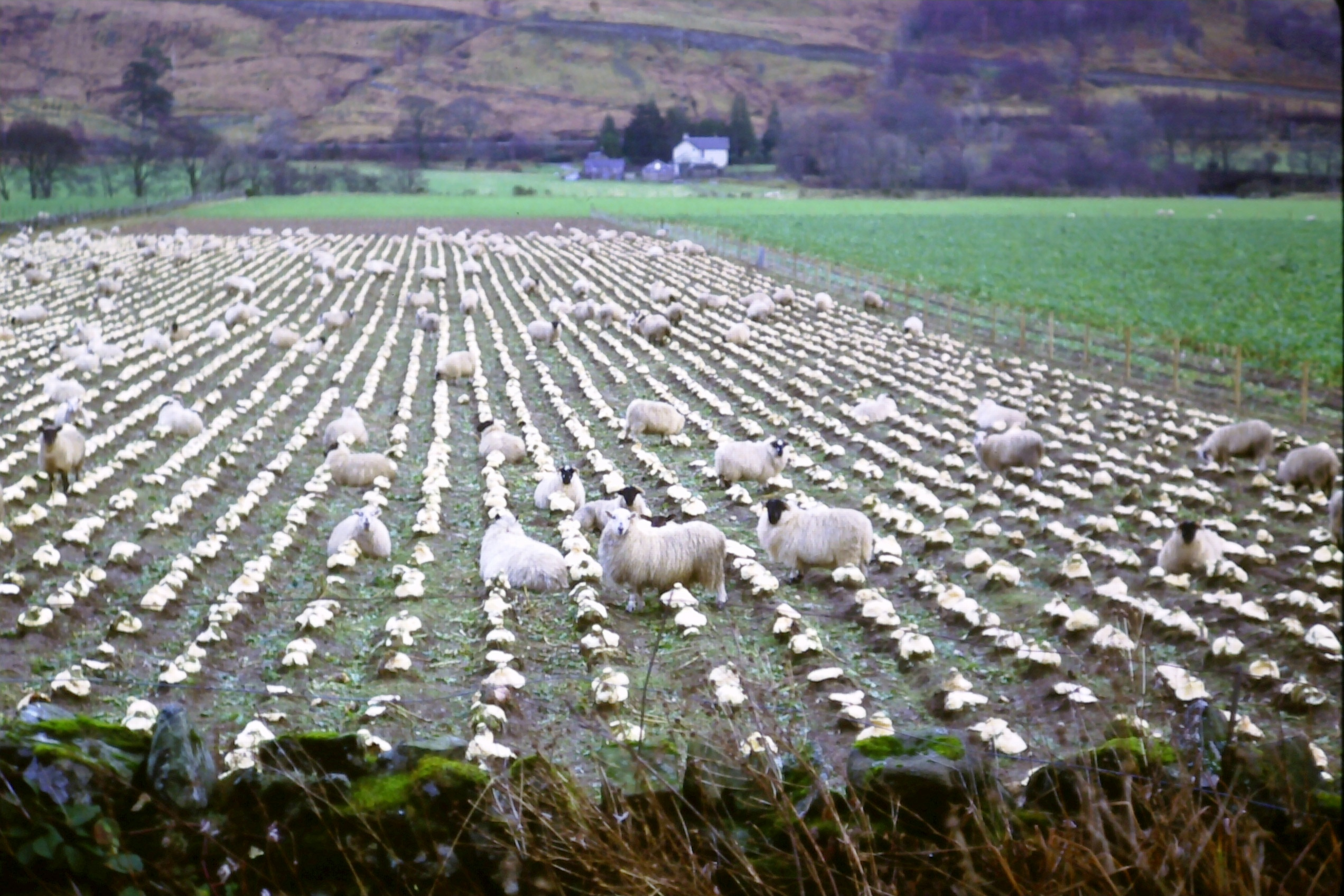 Sheep in turnip field, Auchindrain Township Open Air Museum (1985)